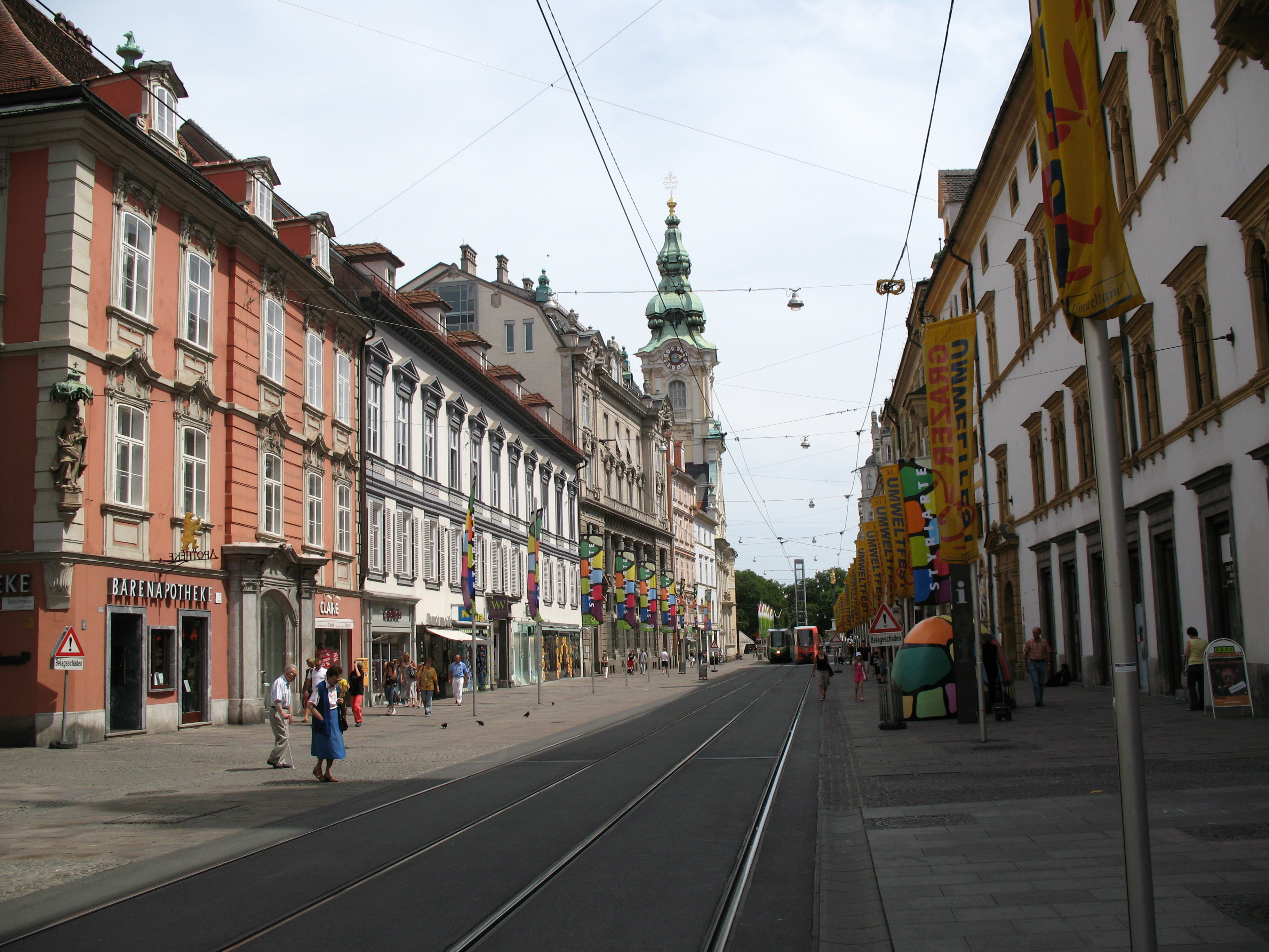 Gentlemen Lane, Graz, Austria